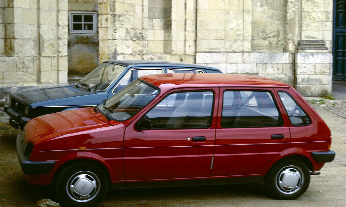 Mini Metro 5 door side profile early example